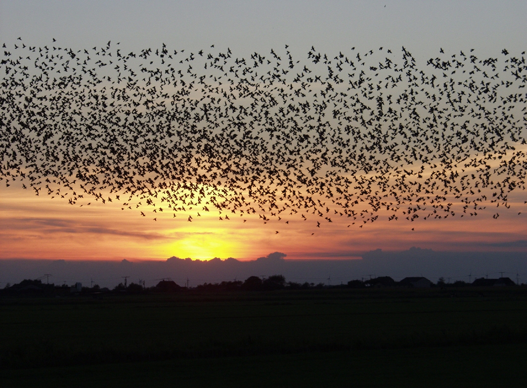 Starlings forming fascinating formations over Tøndermarsken, south-west Jutland, Denmark. Image from Material is in Public Domain.